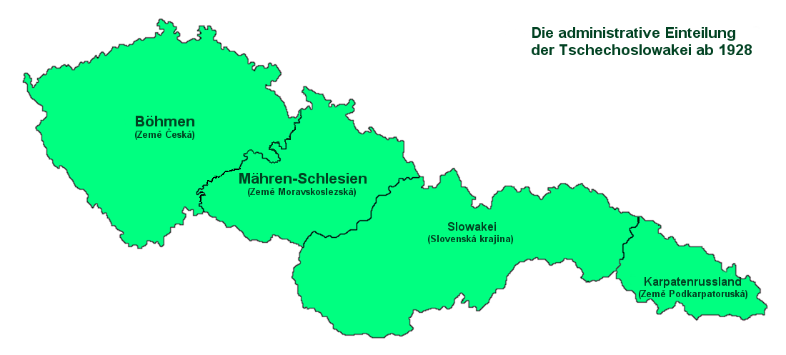 Czechoslovak administrative division 1928–1938; in german (and czech)